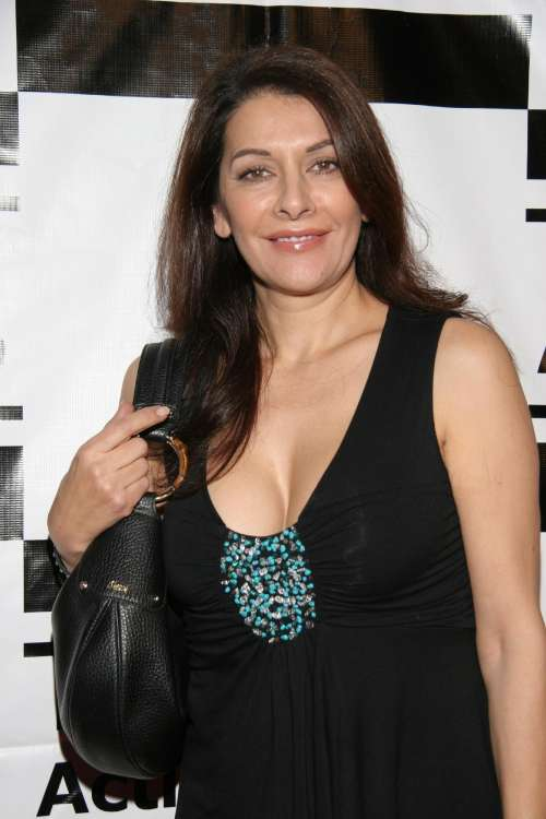 Actress Marina Sirtis in 2008